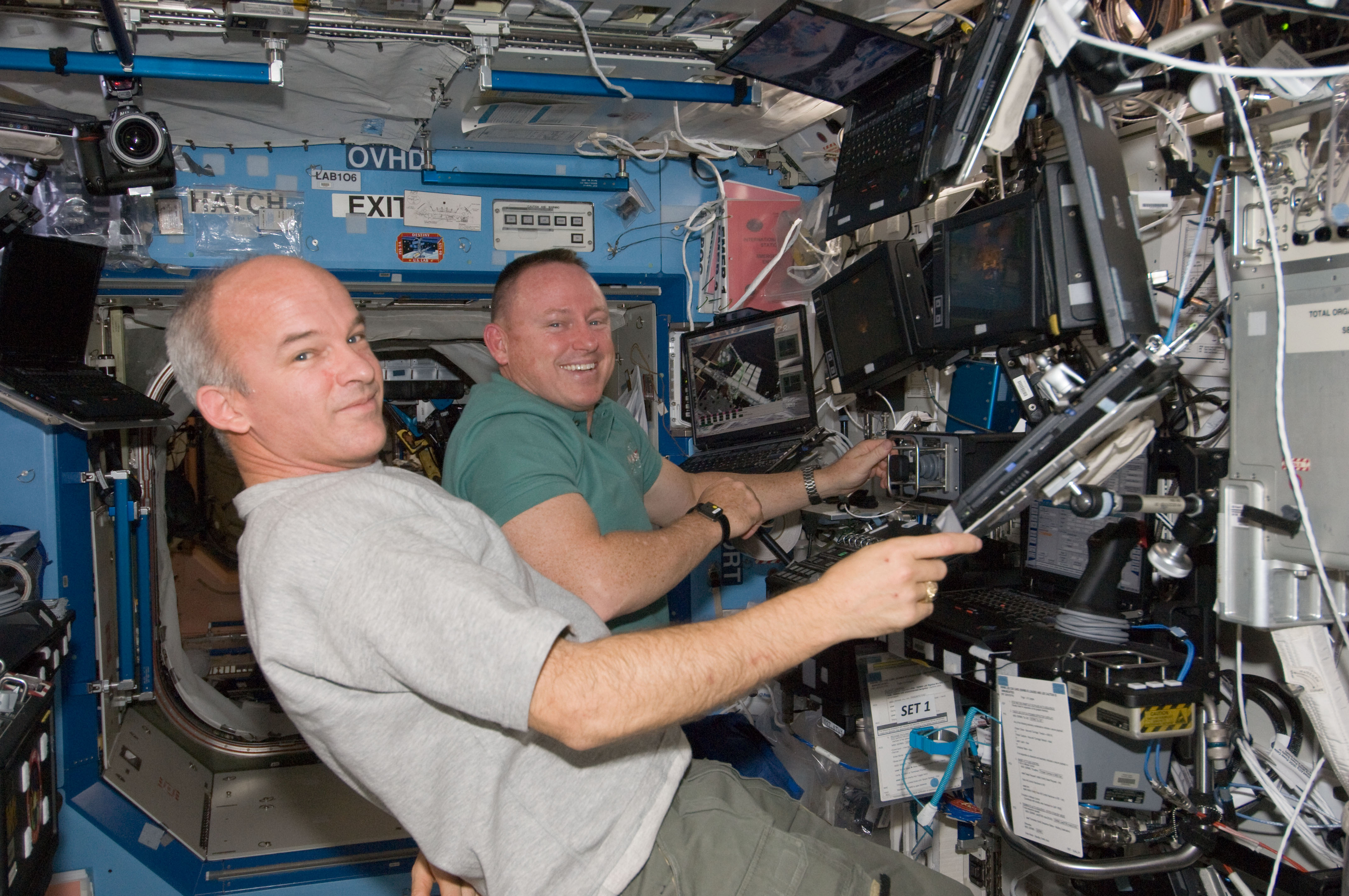 Astronaut Jeffrey Williams (foreground), Expedition 21 flight engineer; and Barry E. Wilmore, STS-129 pilot, work at the Canadarm2 workstation in the Destiny laboratory of the International Space Station while Space Shuttle Atlantis remains docked with the station.